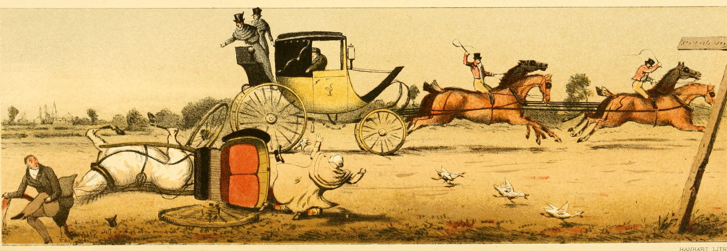 Caption: The Rule of the Road is a paradox quite / In riding or driving along / If you keep to the left you are sure to be right / But if you go right you are wrong. Title: Annals of the road : or, Notes on mail and stage coaching in Great Britain Year: 1876 (1870s) Authors: Malet, Harold Esdaile; Nimrod, 1778-1843 Subjects: Horses; Coaching (Transportation) -- England; Roads -- Great Britain Publisher: London : Longmans, Green, and Co. Text Appearing Before Image: ' Text Appearing After Image: o % Q W k w 5: w Ft, o g w